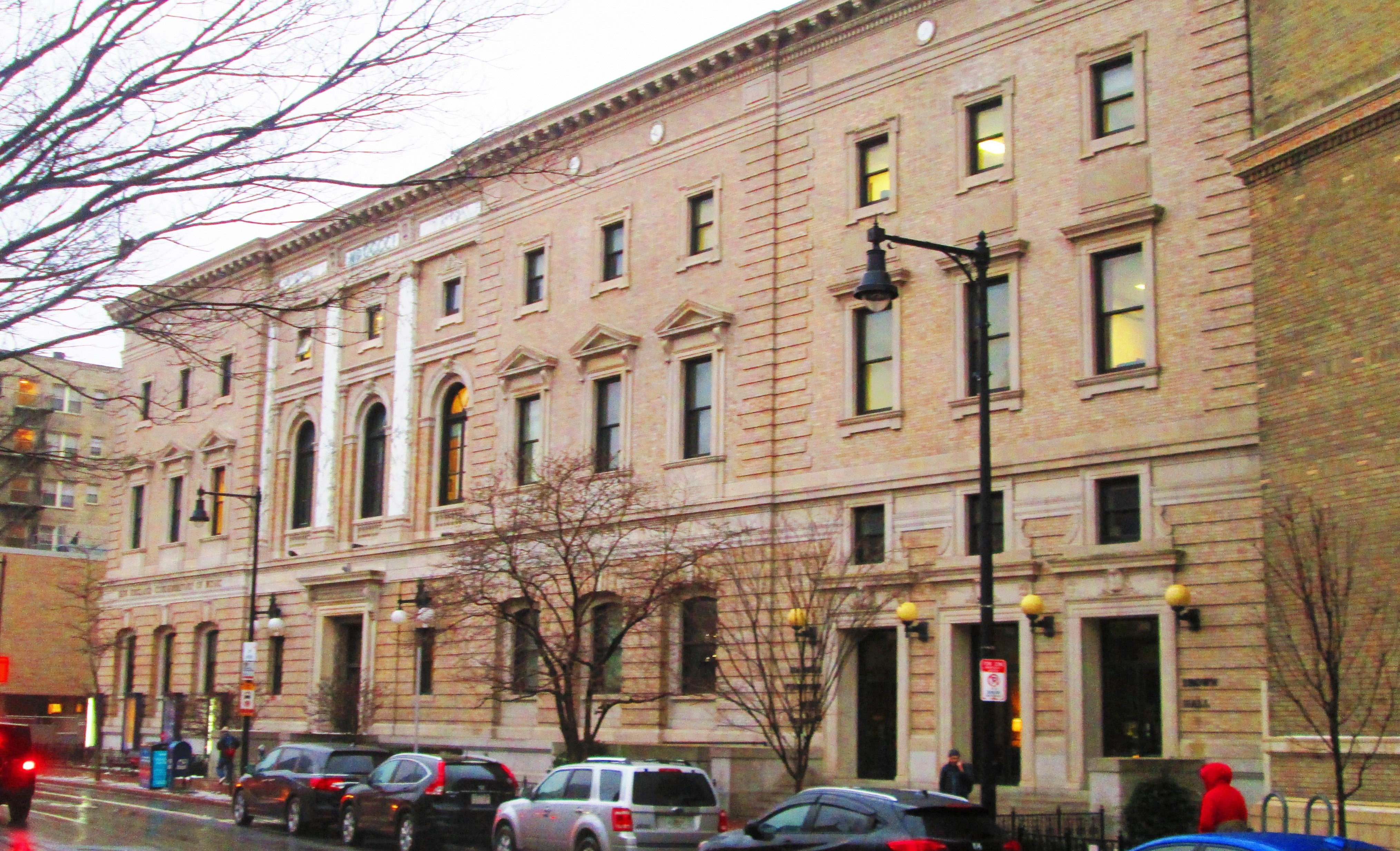 The New England Conservatory of Music building, located at 290-94 Huntington Avenue, was built in 1901 and was designed in the Classical Revival style by Wheelwright and Haven. Founded in 1867, the conservatory occupyied two previous buildings, but this one was built specifically for the them. In 1904, a concert hall, Jordan Hall, was added. (Source: AIA Guide to Boston (2nd ed.))